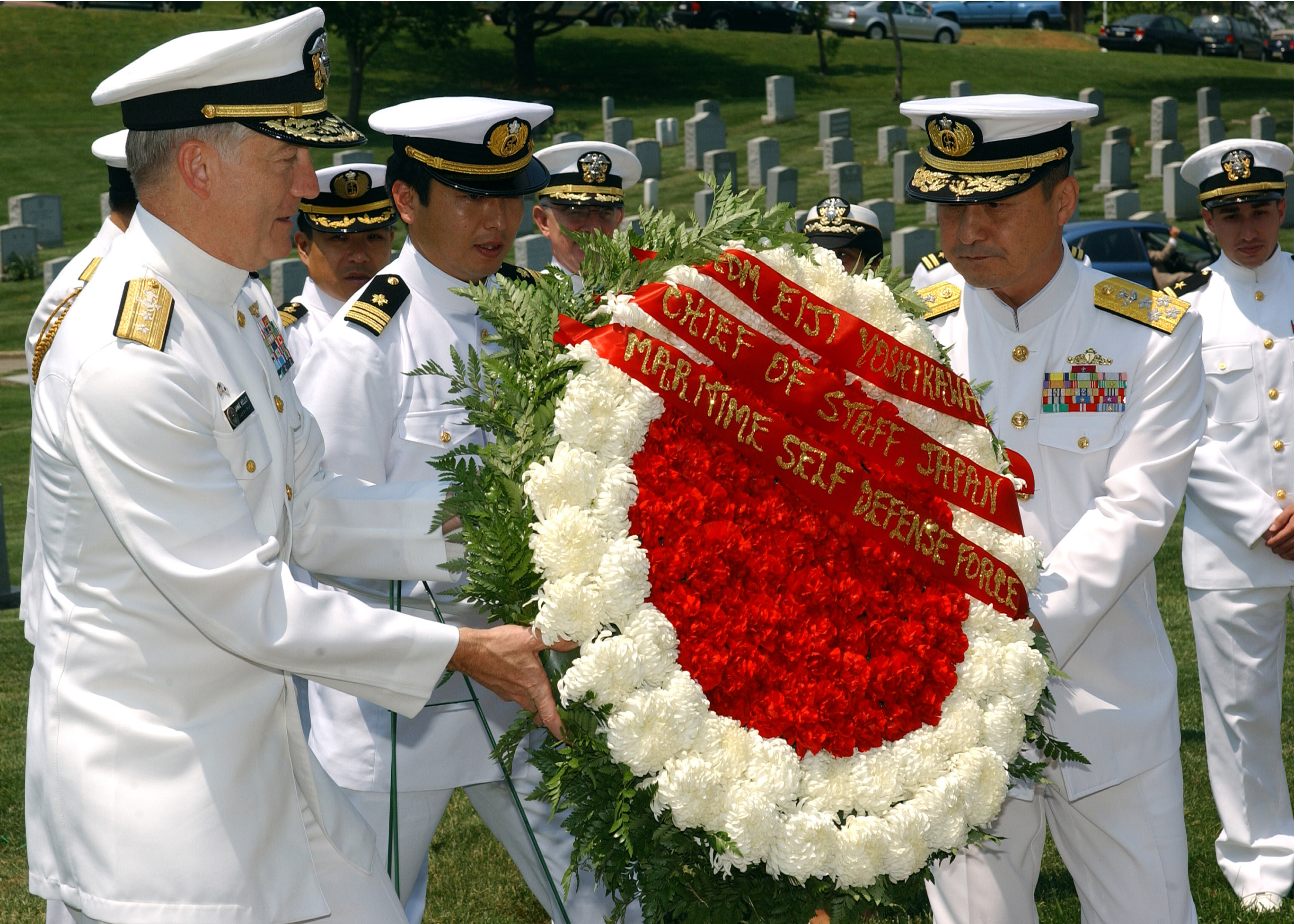 ANNAPOLIS, Md. (May 16, 2007) – From left, Commander, U.S. Naval Forces, Japan, Rear Adm. James D. Kelly and Japanese Maritime Self Defense Force Chief of Naval Operations Adm. Eiji Yoshikawa place a wreath honoring former Chief of Naval Operations Adm. Arleigh Burke at the U.S. Naval Academy Cemetery. Yoshikawa visited the Naval Academy during a Chief of Naval Operations-sponsored visit to Washington, D.C. The wreath-laying ceremony honored Burke, who helped establish the Japanese Maritime Self Defense Force after World War II. Burke graduated from the U.S. Naval Academy in 1923. U.S. Navy photo by Mass Communication Specialist Seaman Chris Lussier (RELEASED)